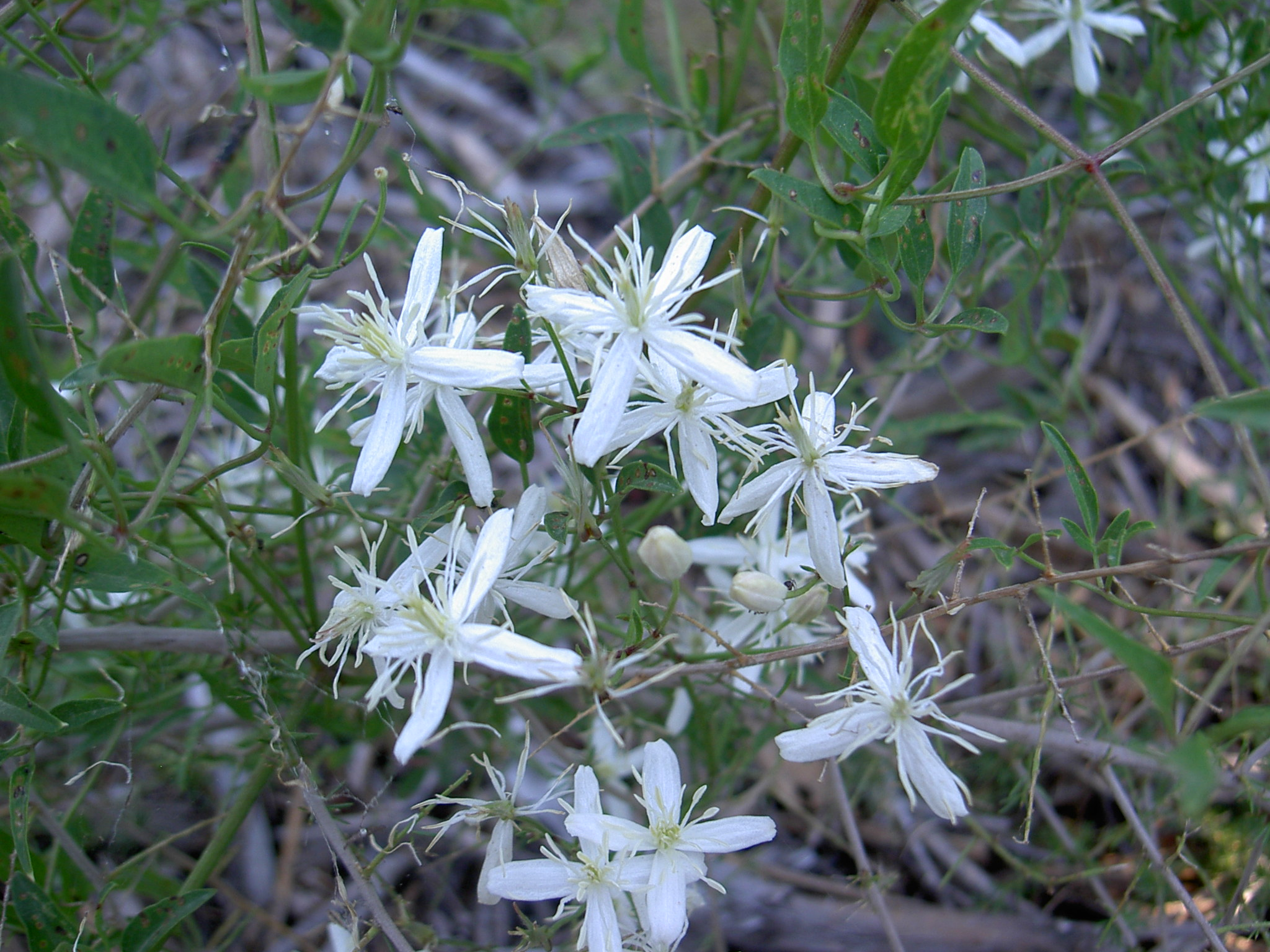 Clematis flammula, found in Corsica